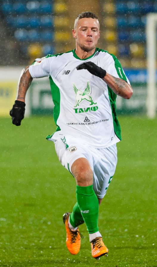 Ragnar Sigurðsson with FC Rubin Kazan in a game against FC Rostov.